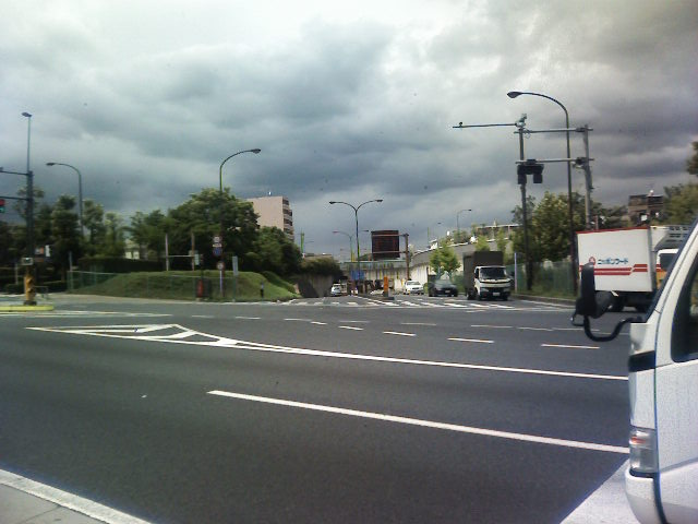 Kitamachi8 cross, Nerima, Tokyo, Japan